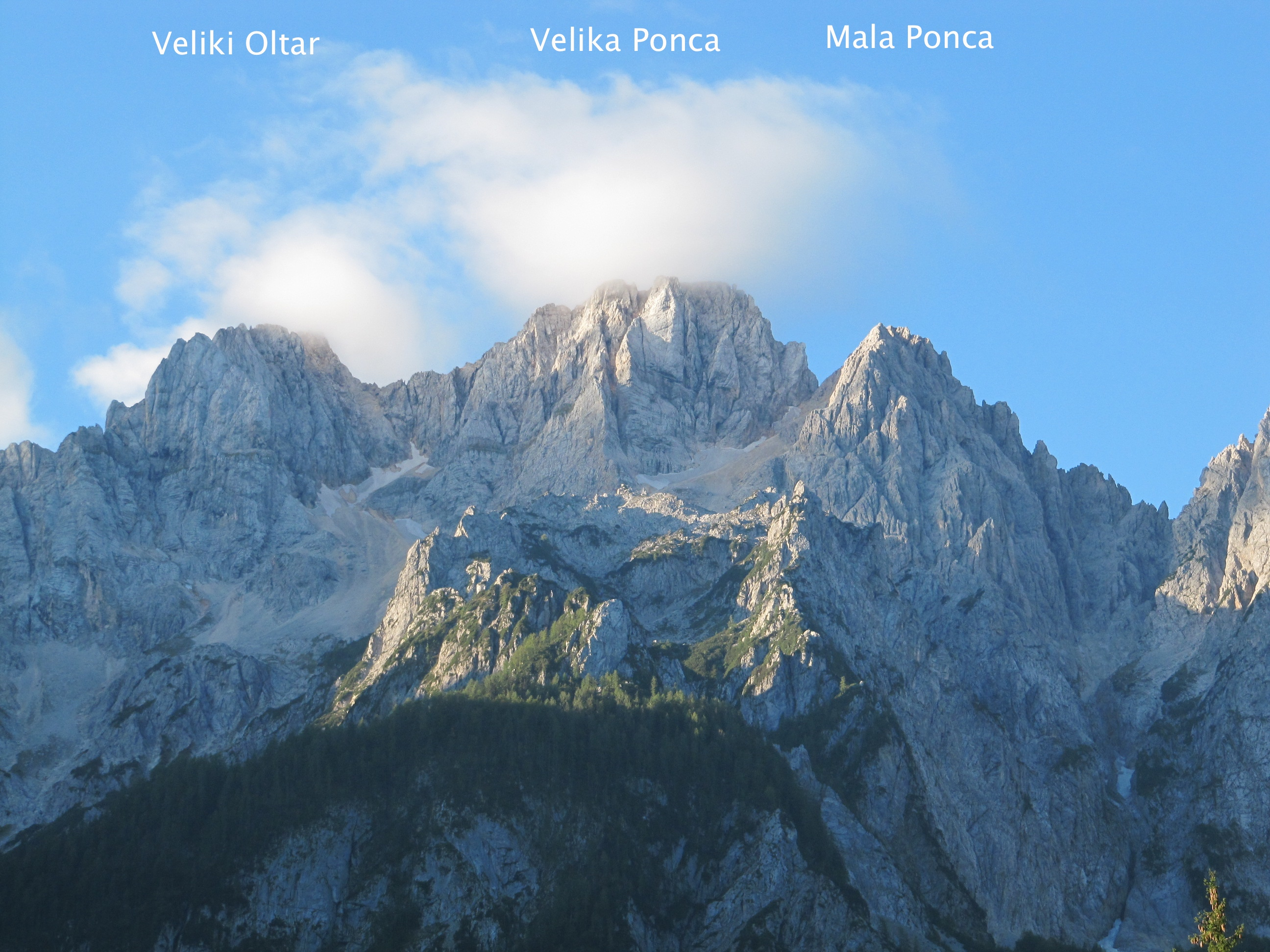 L to R: Oltar, Velika Ponca, Mala Ponca, Julian Alps, Slovenia